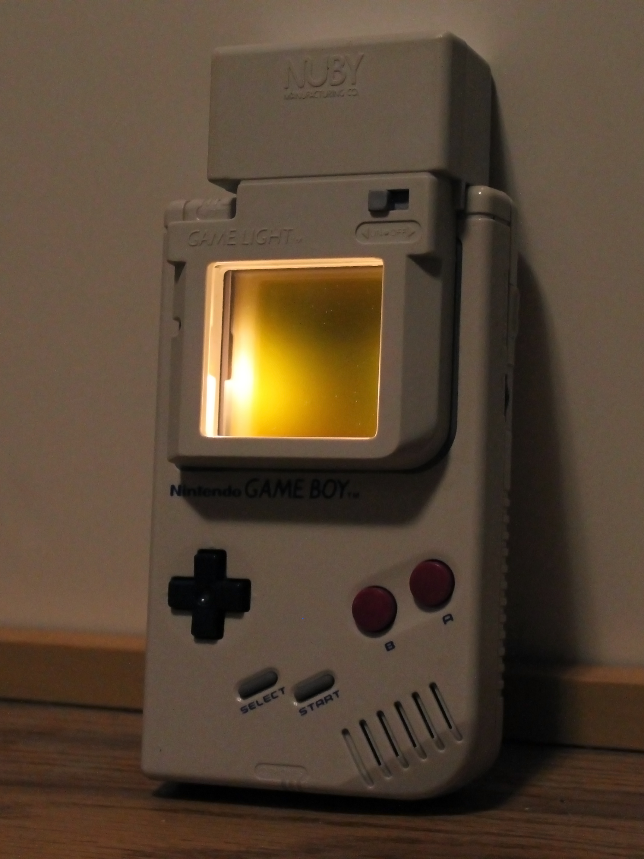 An addon for the original gameboy.